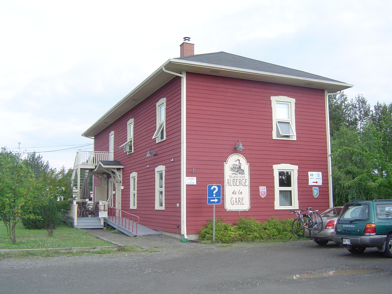 Cabano, Québec, Railway Station, today a hotel